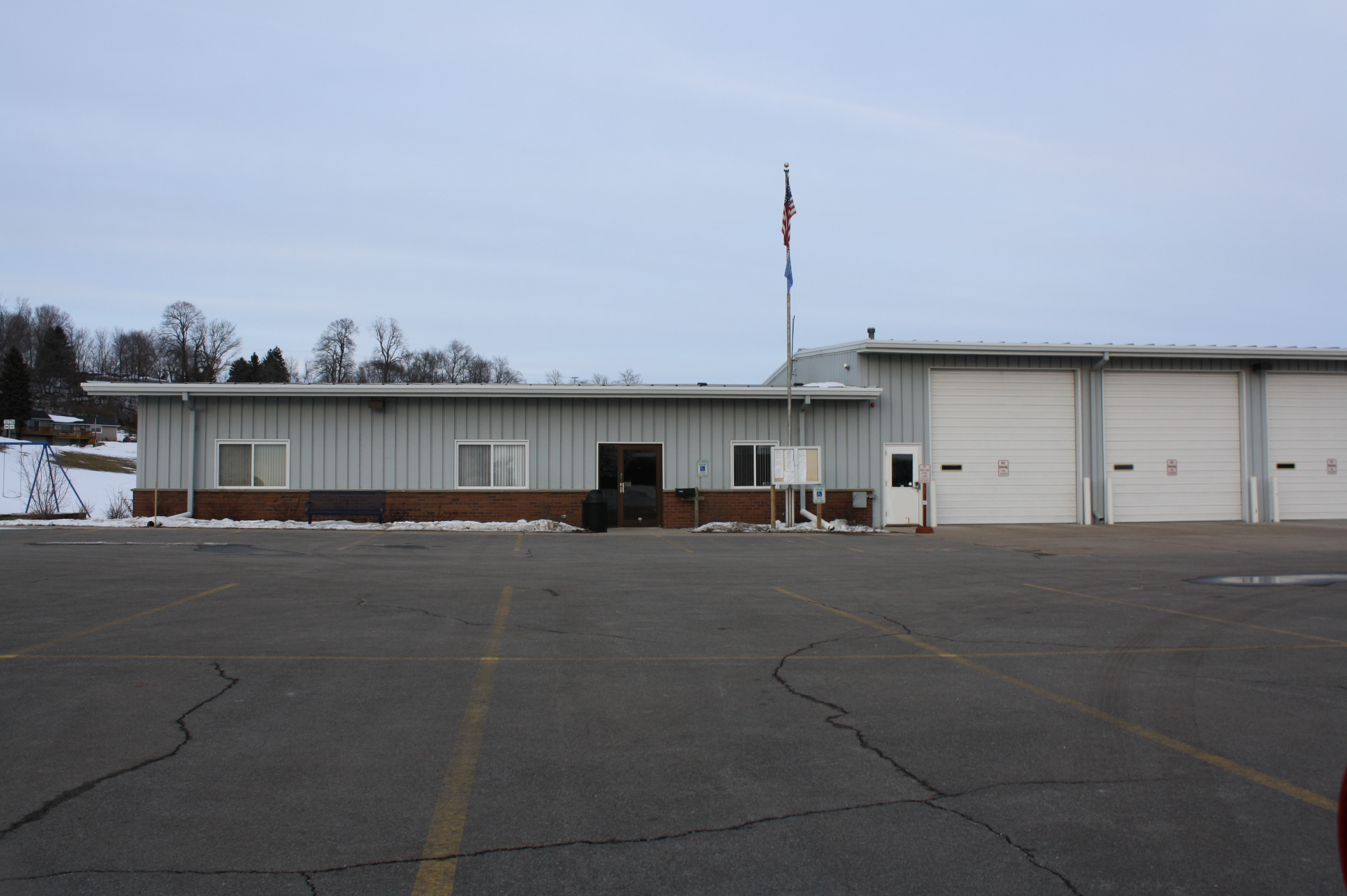 The community center for Ellington, Wisconsin on Wisconsin Highway 76.